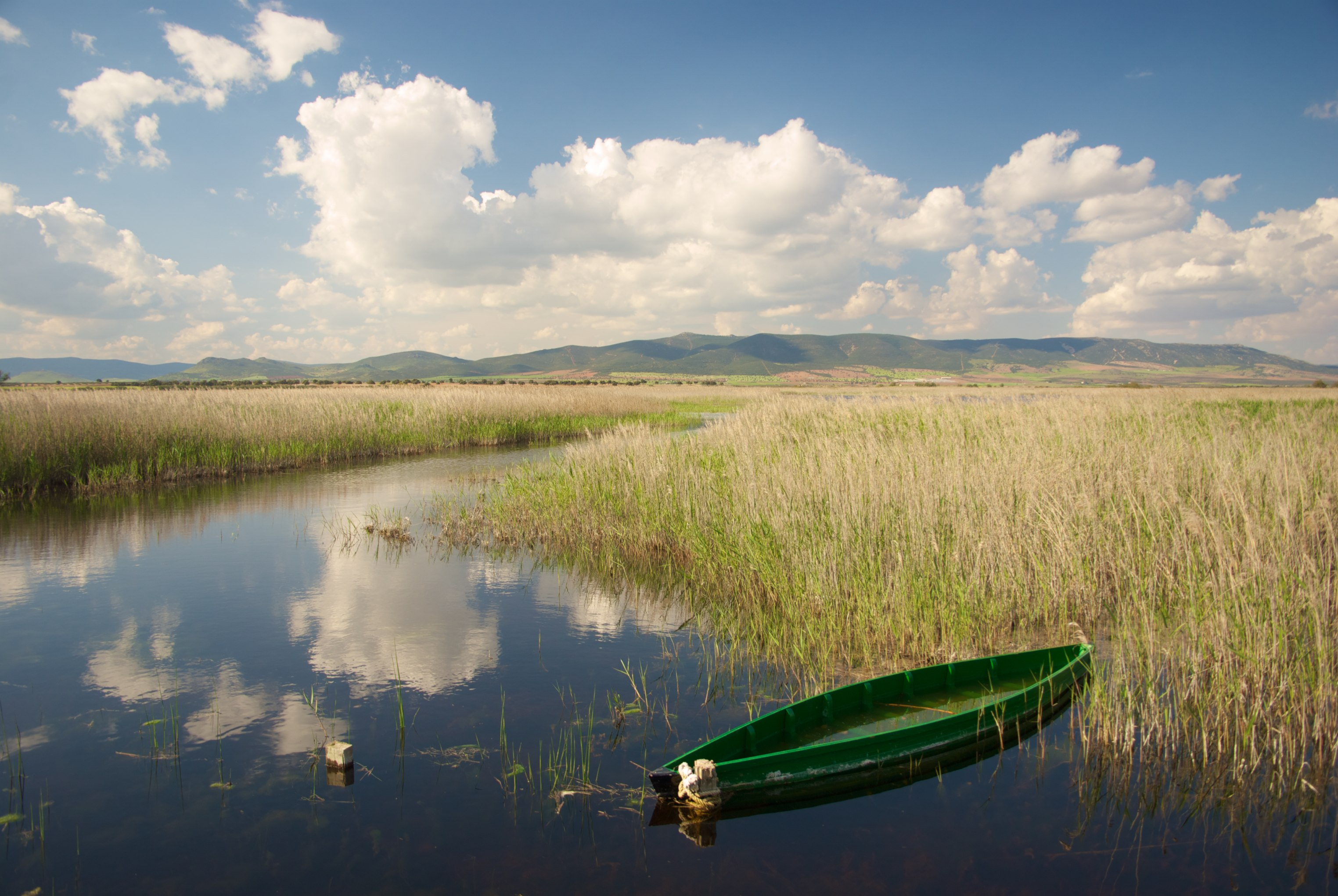 Tablas de Daimiel, April 2010.